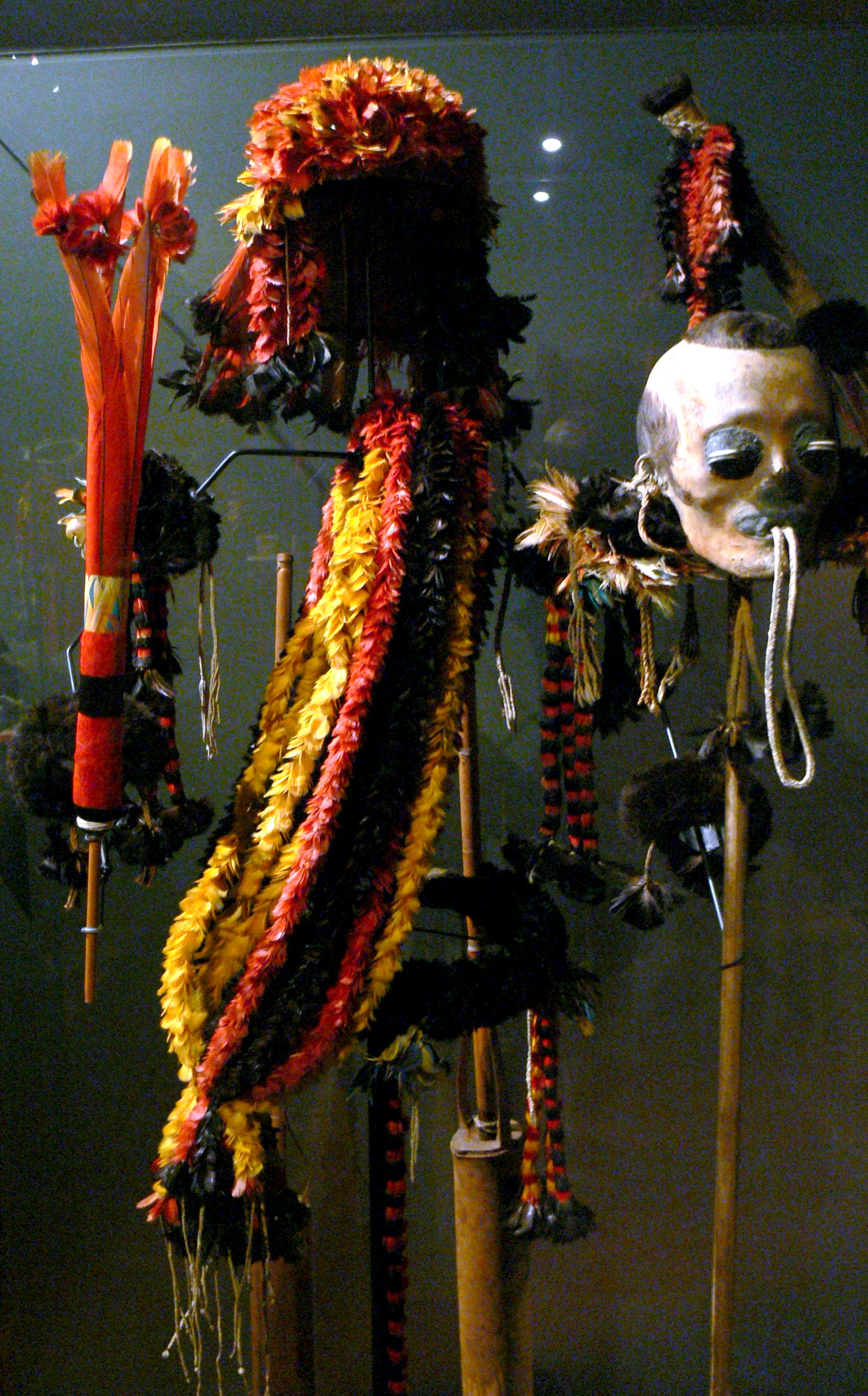 Museum of Ethnology (Vienna). Exhibition "Beyond Brazil": Ceremonial dress ( 1830 ) of the Munduruku, from Rio Tapajos, Brazil.